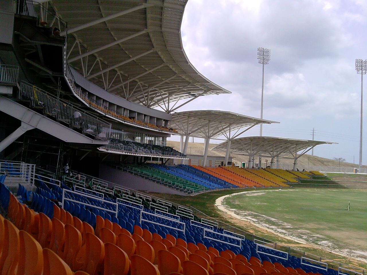 Brian Lara Stadium Seating